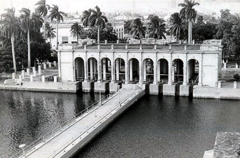 Albear Aqueduct, Havana, Cuba_PALATINO 36,000 Liters WATER DEPOSIT